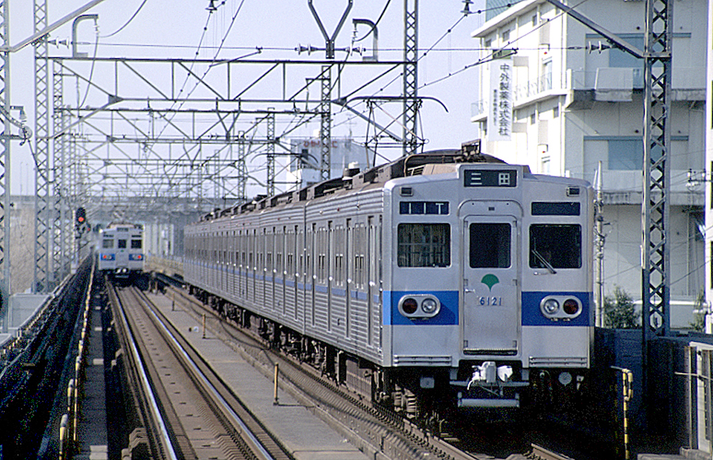 Toei Mita Line 6000 Series EMU on Shin-Takashimadaira ~ Nishi-Takashimadaira